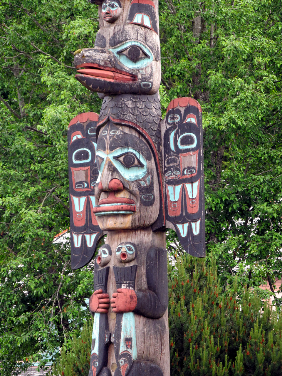 Totem face depicting raven on top